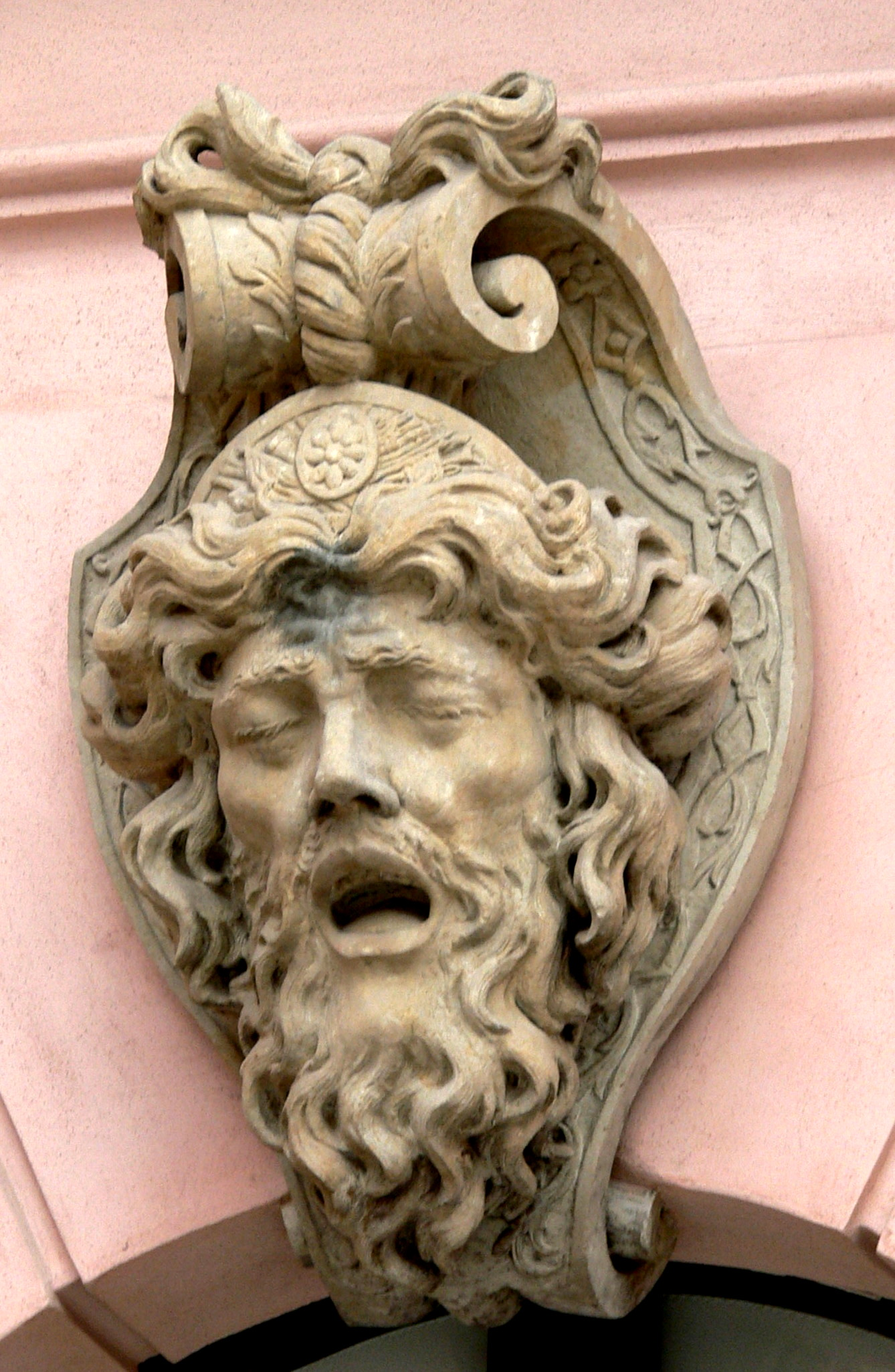 Zeughaus (arsenal), Berlin. Sculpture "Head of a dying warrior" ( 1697 ) by Andreas Schlüter.